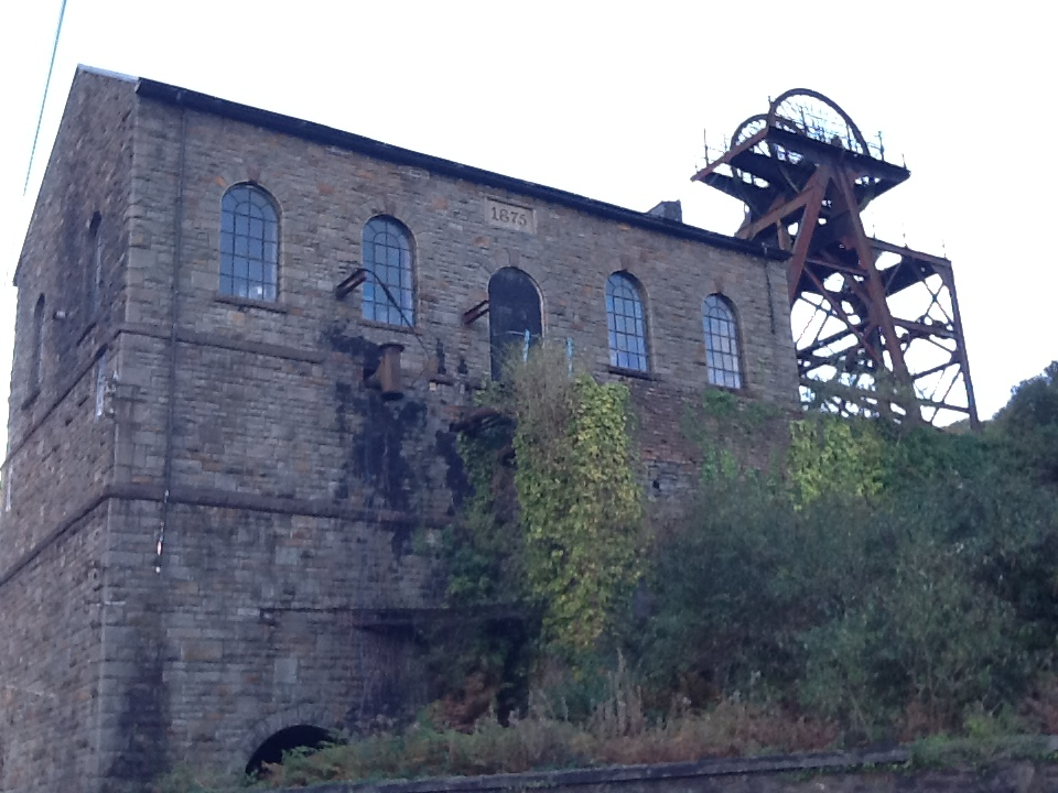 Headframe at Hetty Shaft, Pontypridd, Wales. Grade I listed building.